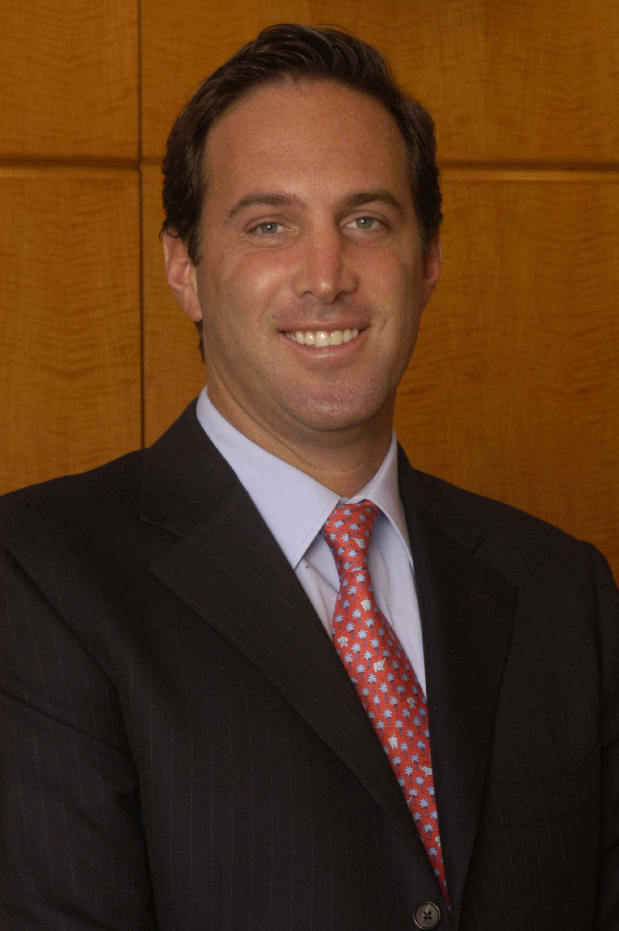 Picture of Andrew Murstein, Portrait Full Frontal